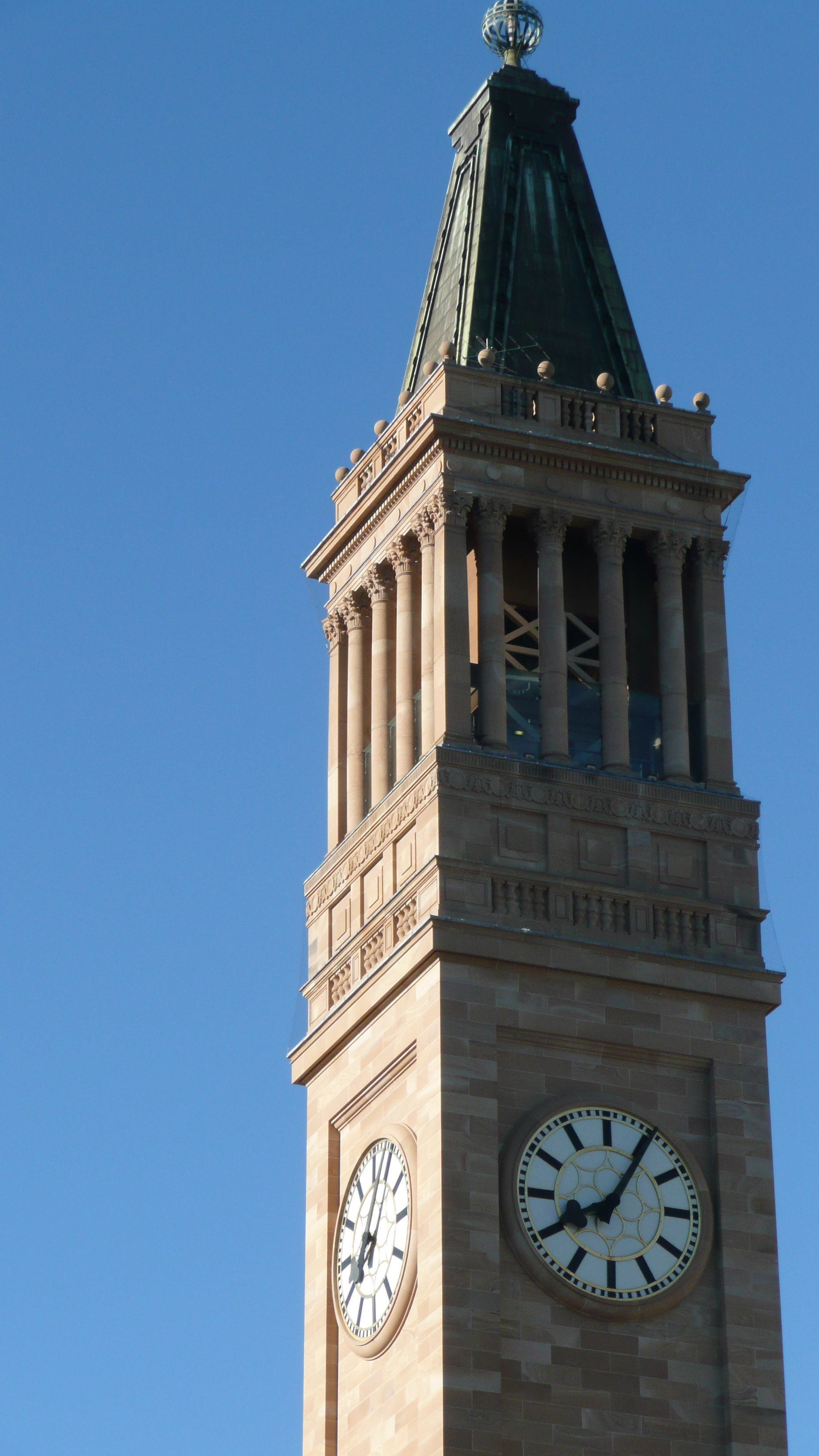 The clock tower of Brisbane City Hall.